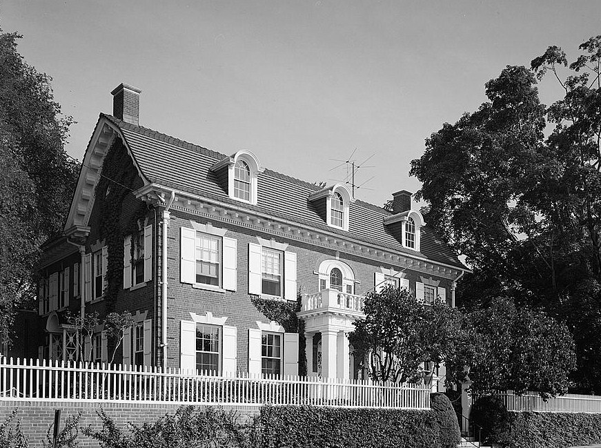 Wakeman Memorial, 648 Harbor Road, Southport (Fairfield County, Connecticut) cropped This file comes from the Historic American Buildings Survey (HABS), Historic American Engineering Record (HAER) or Historic American Landscapes Survey (HALS). These are programs of the National Park Service established for the purpose of documenting historic places. Records consist of measured drawings, archival photographs, and written reports. When reusing please credit: Library of Congress, Prints & Photographs Division, CONN,1-SOUPO,29-1 This tag does not indicate the copyright status of the attached work. A normal copyright tag is still required. See Commons:Licensing. This work is in the public domain in the United States because it is a work prepared by an officer or employee of the United States Government as part of that person’s official duties under the terms of Title 17, Chapter 1, Section 105 of the US Code. Note: This only applies to original works of the Federal Government and not to the work of any individual U.S. state, territory, commonwealth, county, municipality, or any other subdivision. This template also does not apply to postage stamp designs published by the United States Postal Service since 1978. (See § 313.6(C)(1) of Compendium of U.S. Copyright Office Practices). It also does not apply to certain US coins; see The US Mint Terms of Use. This file has been identified as being free of known restrictions under copyright law, including all related and neighboring rights.